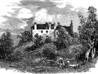 Kenmure Castle, New Galloway, Kirkcudbrightshire, Galloway, Scotland